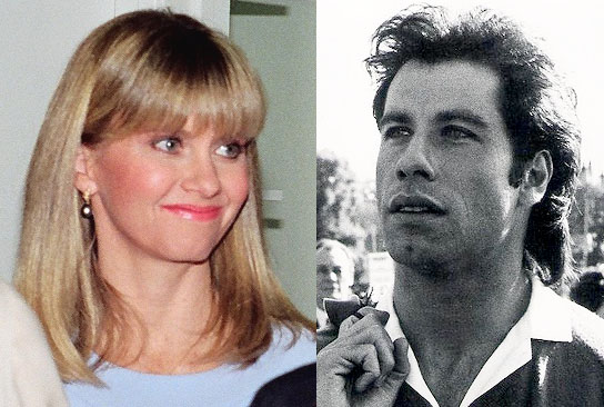 Olivia Newton-John at the Grand Opening of the Koala Blue store at The Arboretum Shopping Center, Austin, Texas, United States. John Travolta